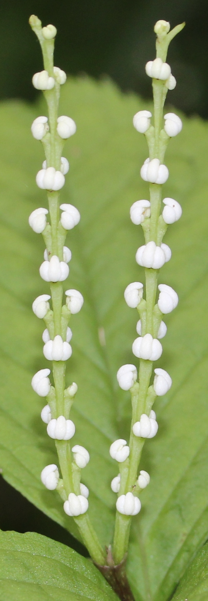 Chloranthus serratus in Mount Ibuki, Ibigawa, Gifu prefecture, Japan.